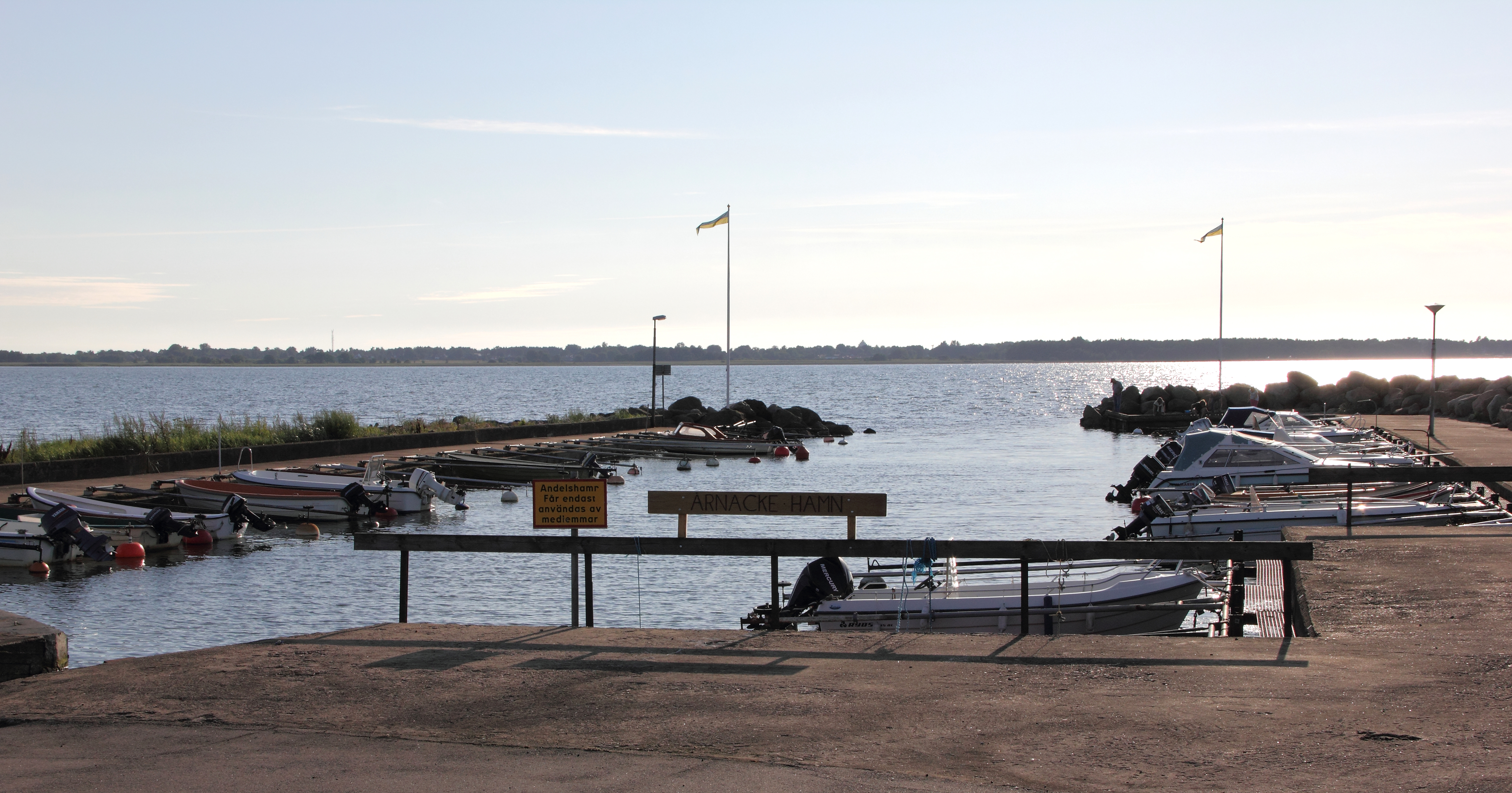 Årnacke hamn (harbor) in Farhult/Farhultsbaden, Sweden